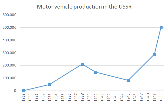 Motor vehicle production in the USSR 1929-1950 Data source: Russia's Soviet Economy page 348